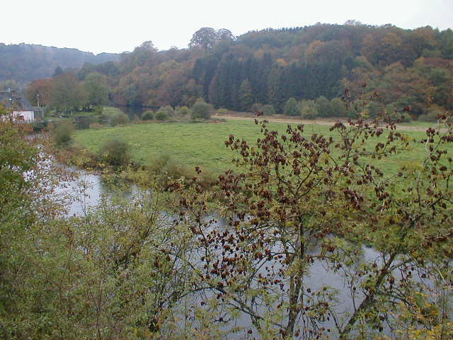 A meadow along Semois river at Mortehan Walon: On pré li long d' l' aiwe di Smwès al Moite-Han.